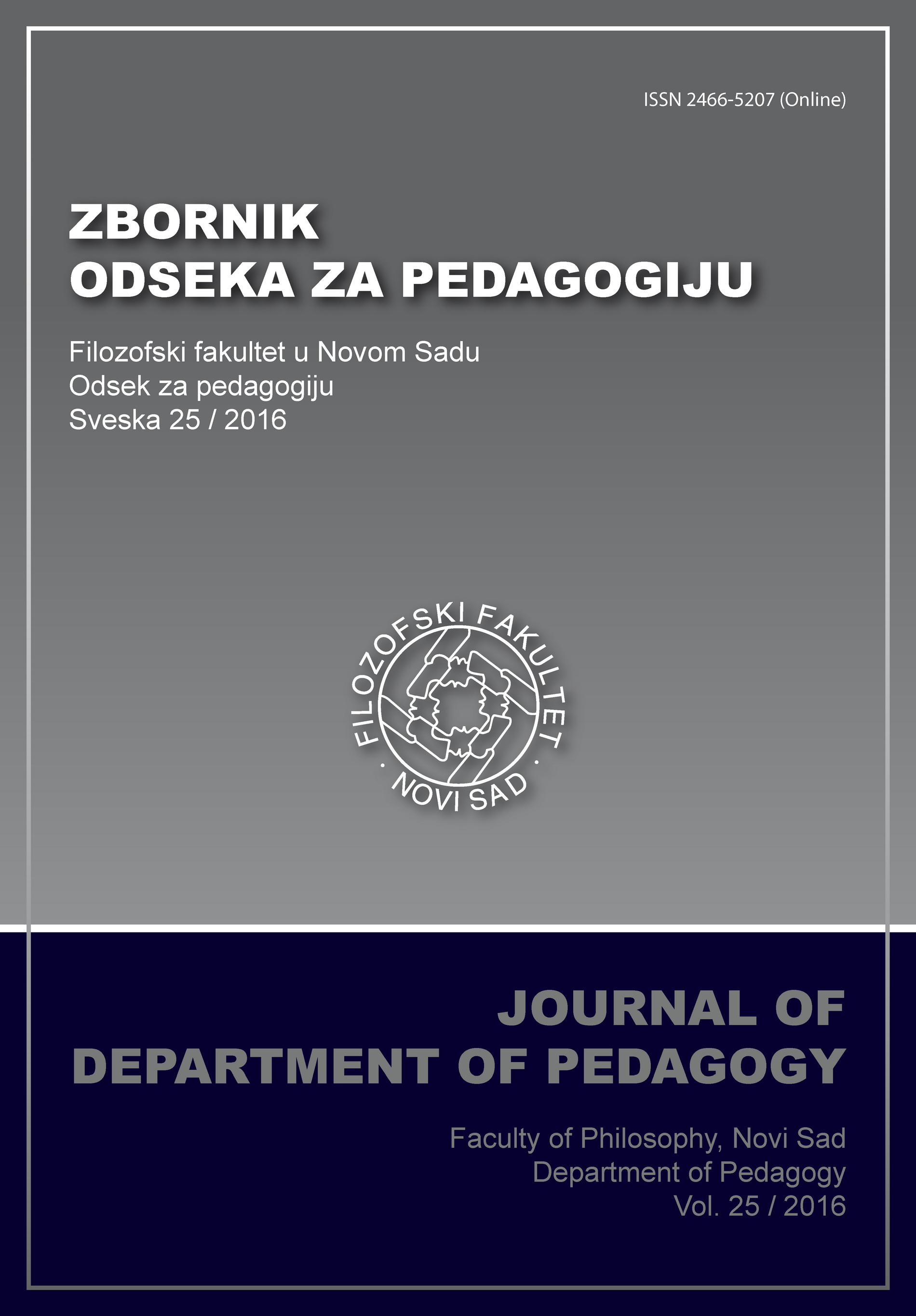 Scientific journal Zbornik Instituta za pedagogiju, 2016, Novi Sad, Serbia